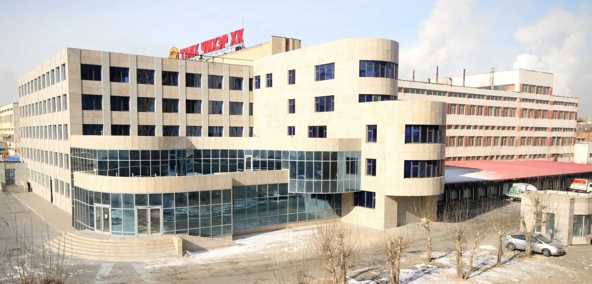 гадна өргөтгөл